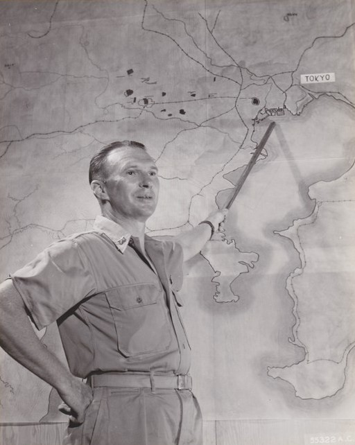 XXI Bomber Command commanding officer Brigadier General Haywood S. Hansell pointing to a map of Tokyo in November 1944